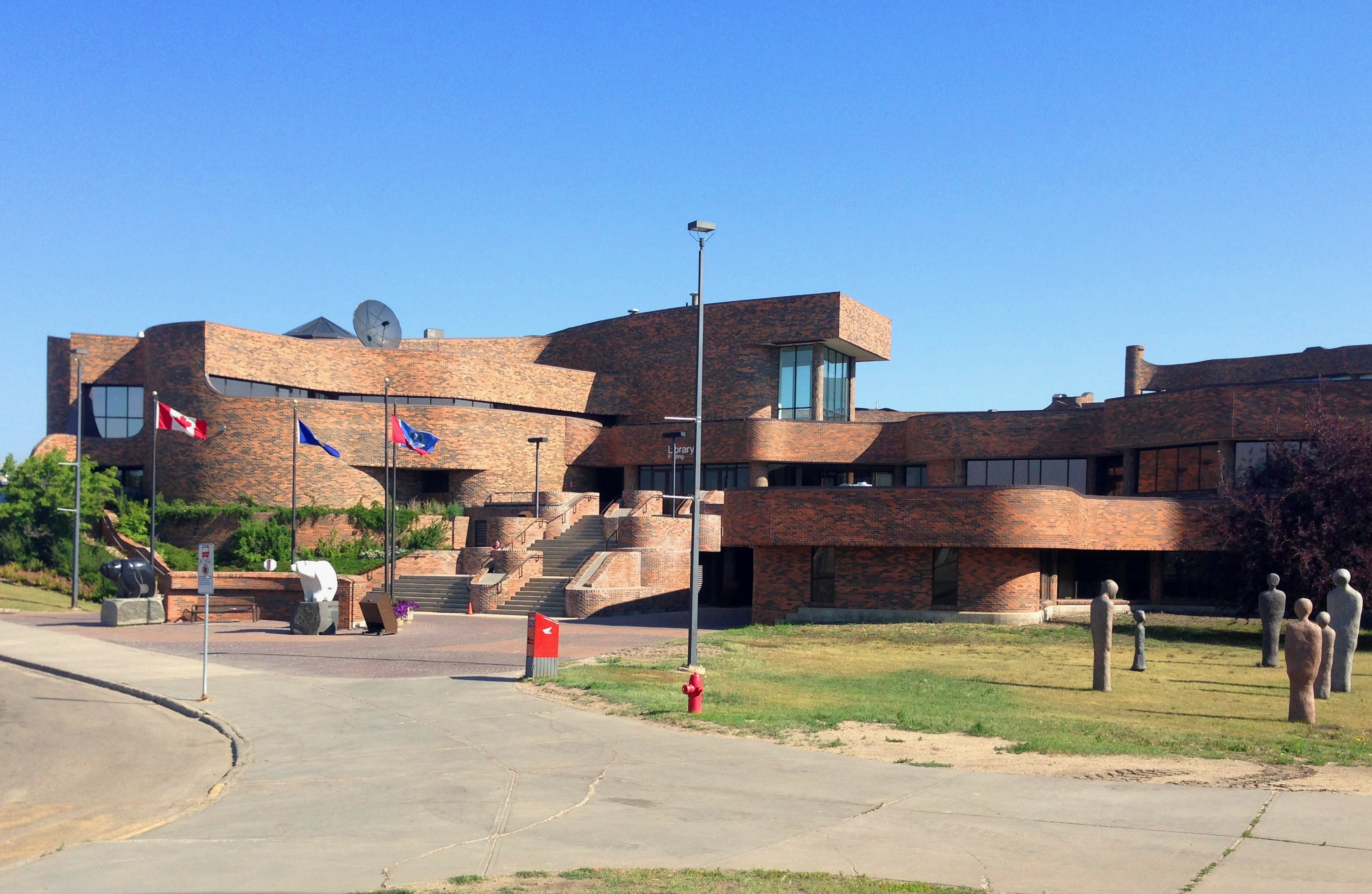 View of the main entry of the GP campus from the south